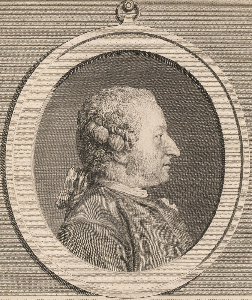 Alexis Claude Clairault (1713–1765), French mathematician.